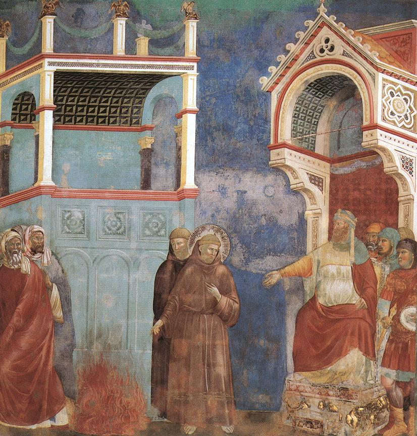 Legend of St Francis